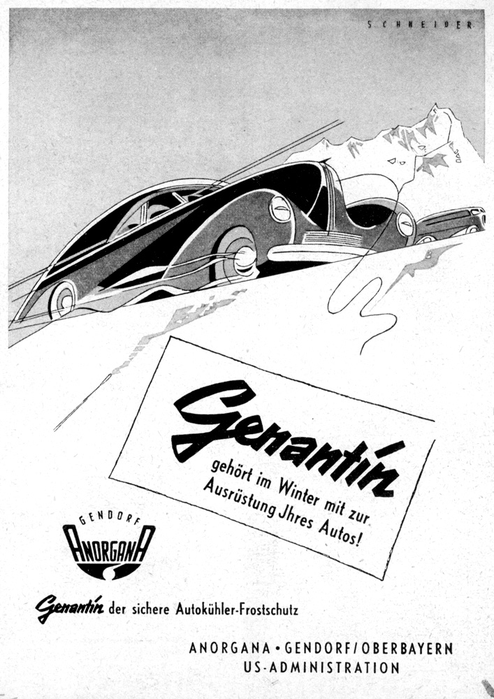 Genantin Advertisement Poster from the 1950s